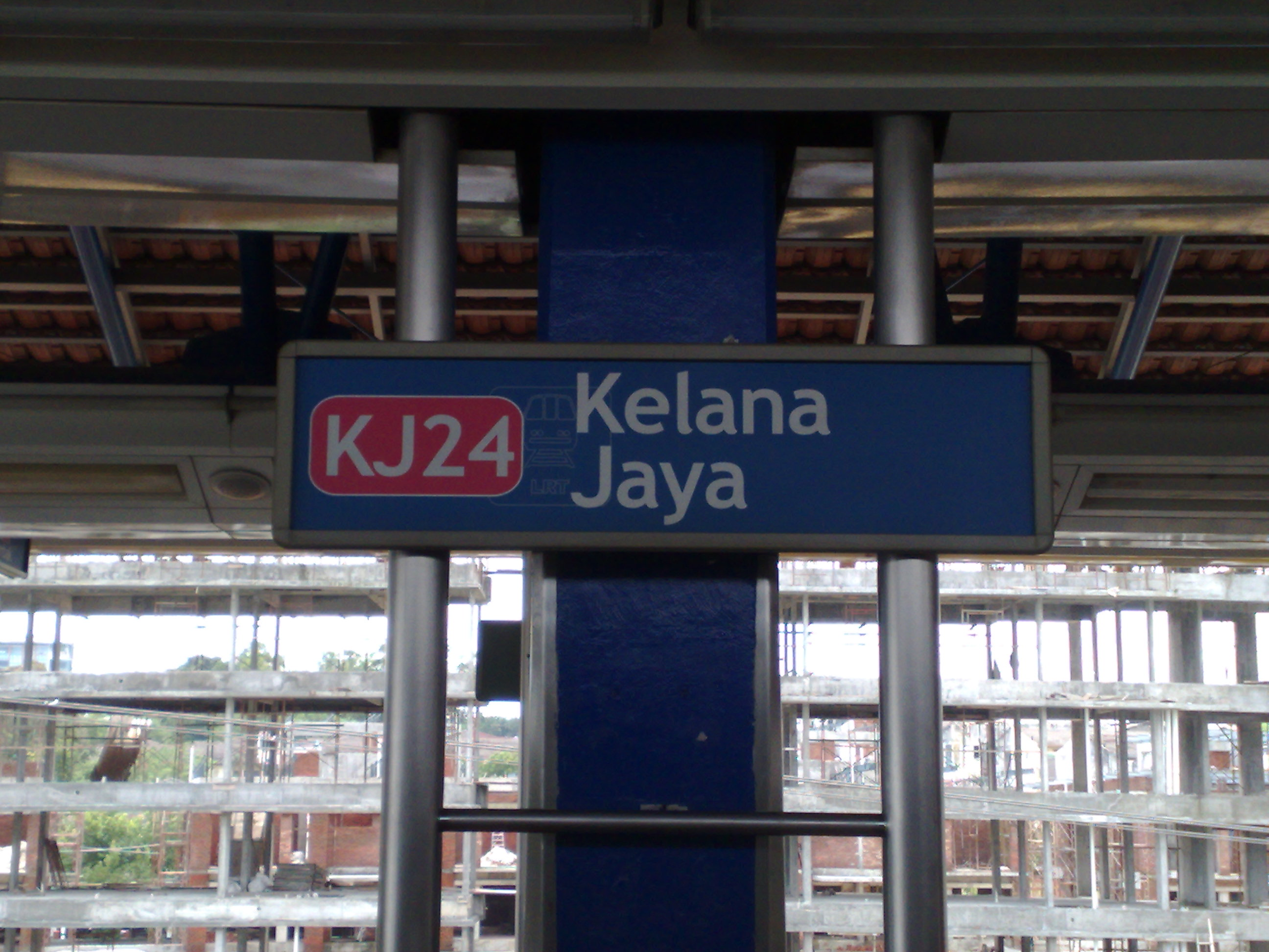 Kelana Jaya LRT